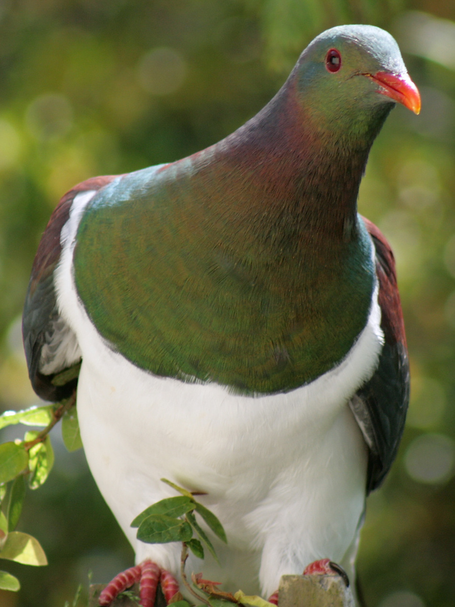 Kererū on fence